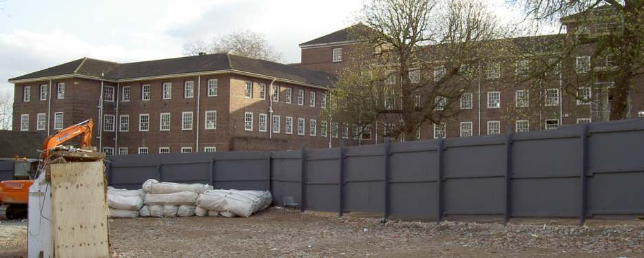 Whitelands Teacher Training College, Putney, London. en:1929-31 by Giles Gilbert Scott, currently undergoing conversion to residential accommodation.